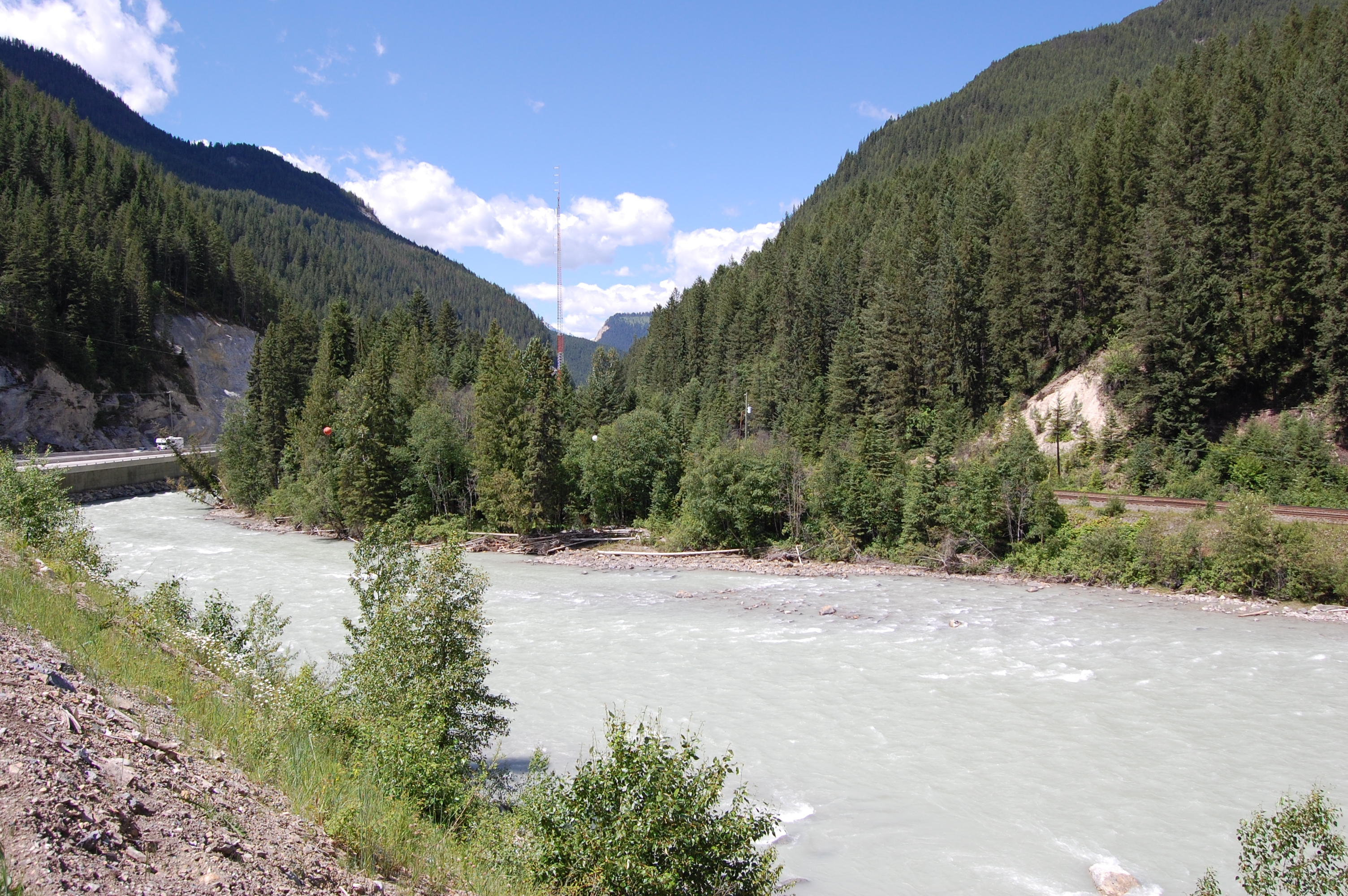 Kicking Horse River at Park Bridge rest area near Golden British Columbia.